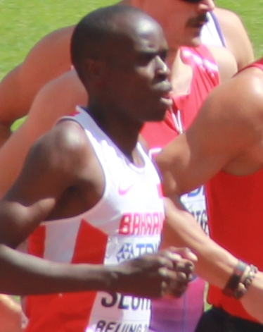 Yassine Bensghir, Benson Seurei and Jakub Holuša at the 2015 World Championships in Athletics